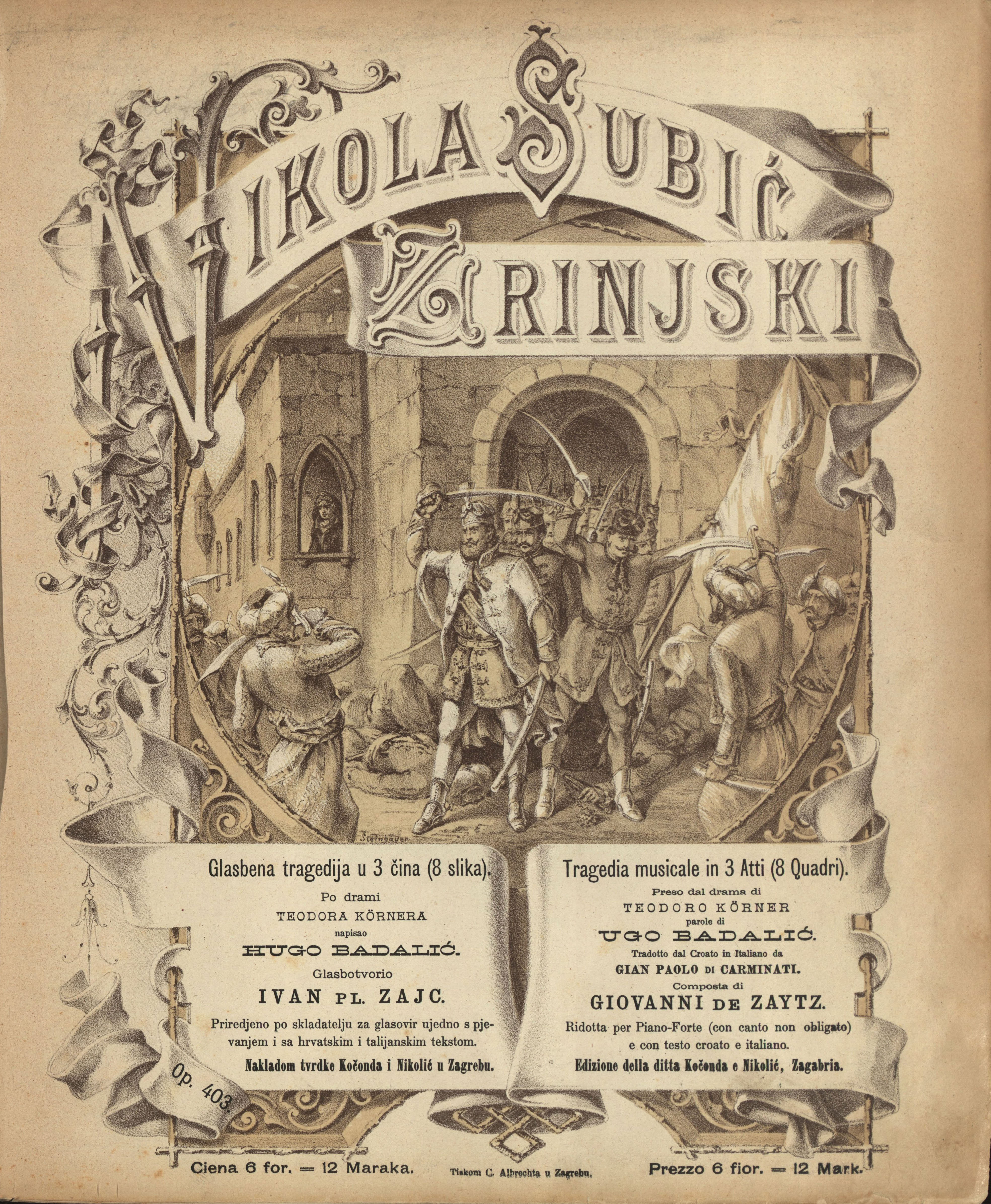 Ivan Zajc - Nikola Šubić Zrinjski - title page of the piano score, Zagreb 1884